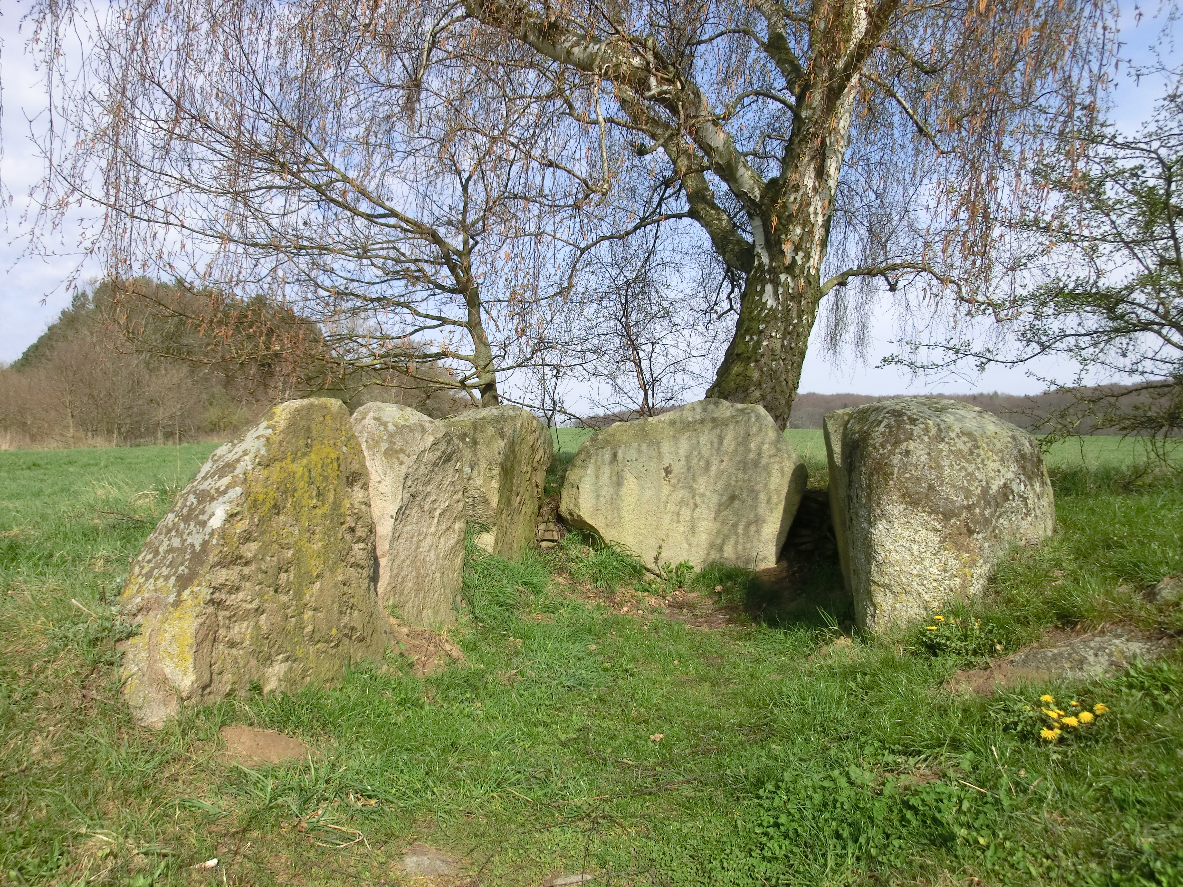 Dolmen Lancken 5, Island of Rügen